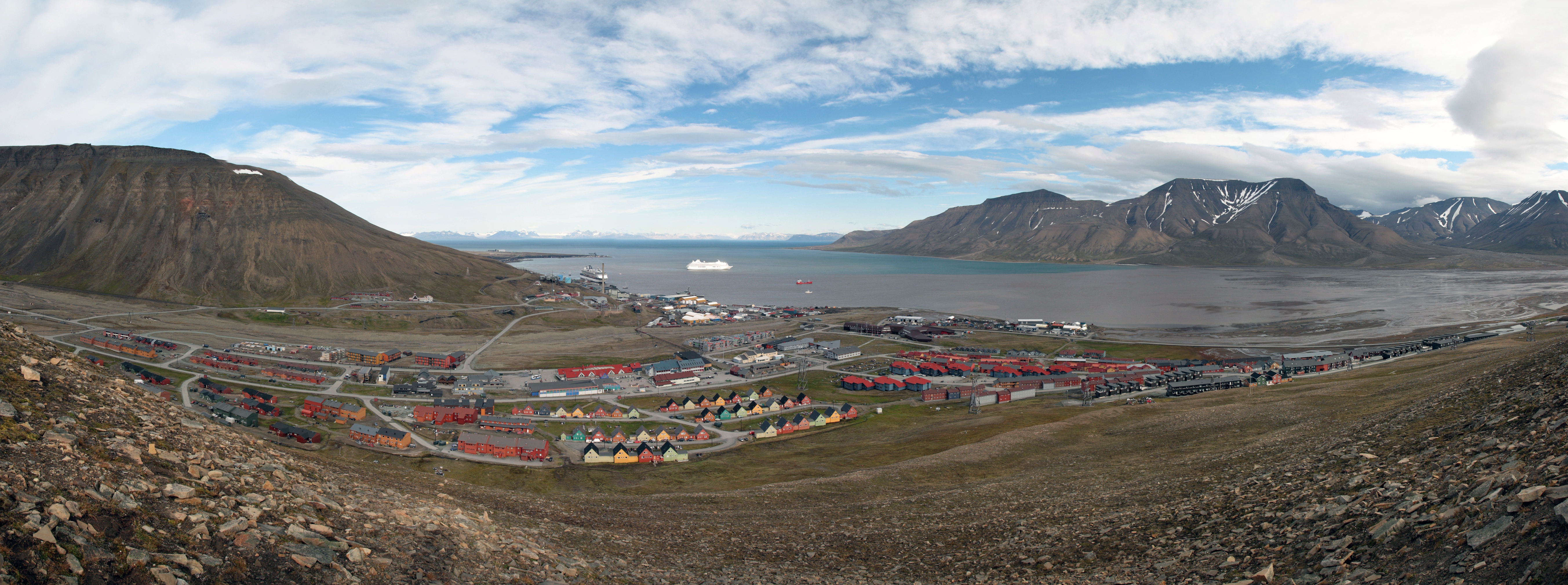 Panorama of Longyearbyen, Svalbard